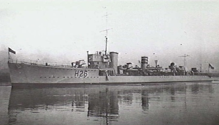 AWM caption : "PORT MELBOURNE, VIC. C.1920. PORT SIDE VIEW OF THE DESTROYER HMAS TATTOO (H26). NOTE THE IDENTIFICATION BANDS ON THE AFTER FUNNEL."